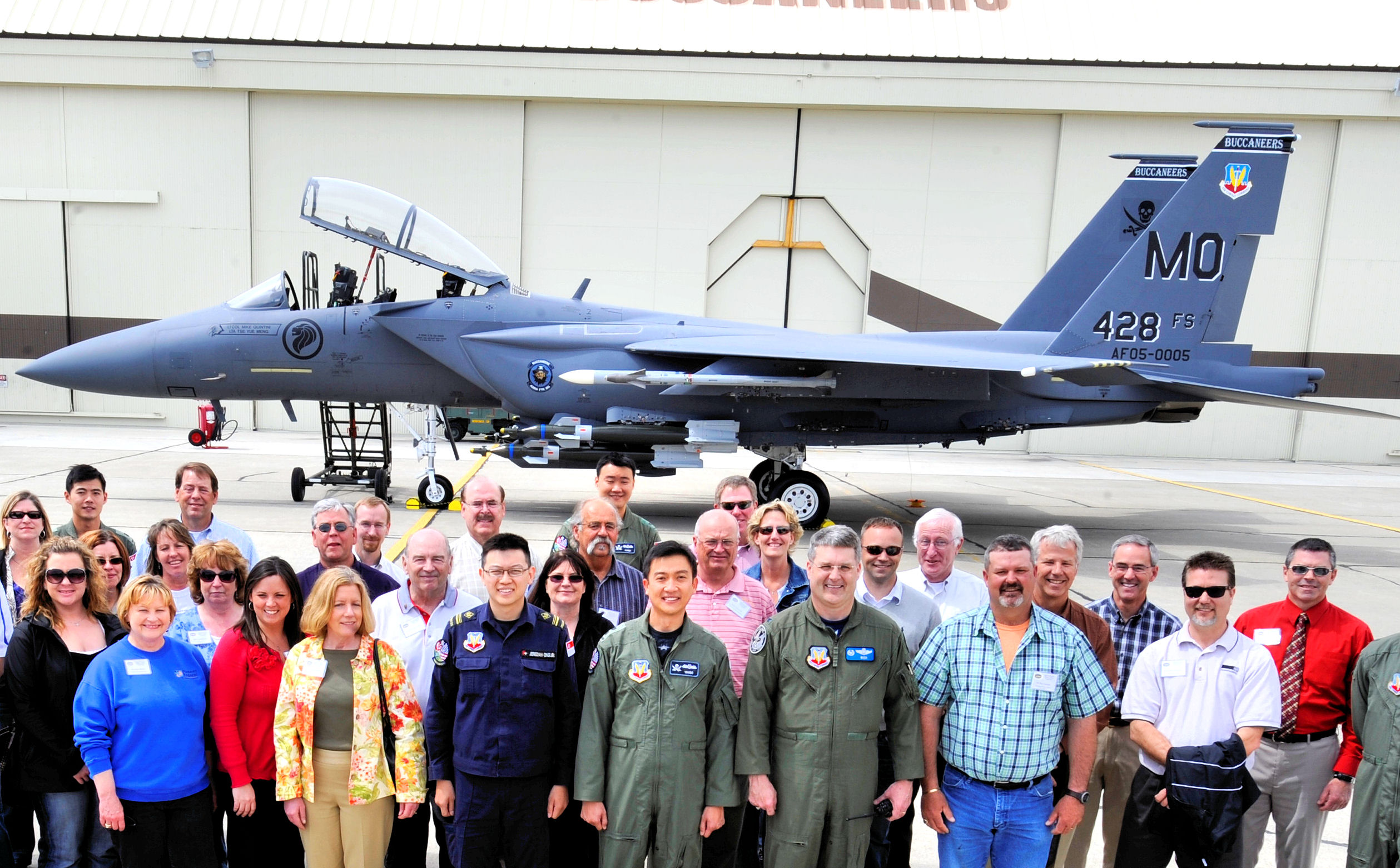 MOUNTAIN HOME AIR FORCE BASE, Idaho – The Military Affairs Committee pauses for a group photo in with members of the 428th fighter squadron May 6. While at the 428th the each MAC member was given the opportunity to climb inside the cockpit of a F-15SG Strike Eagle. (U.S. Air Force photo by Angelina Drake)